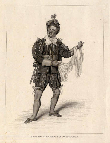 Portrait of William West (1796?–1888), English actor and composer. He is shown in character as Leporello, from Don Giovanni.